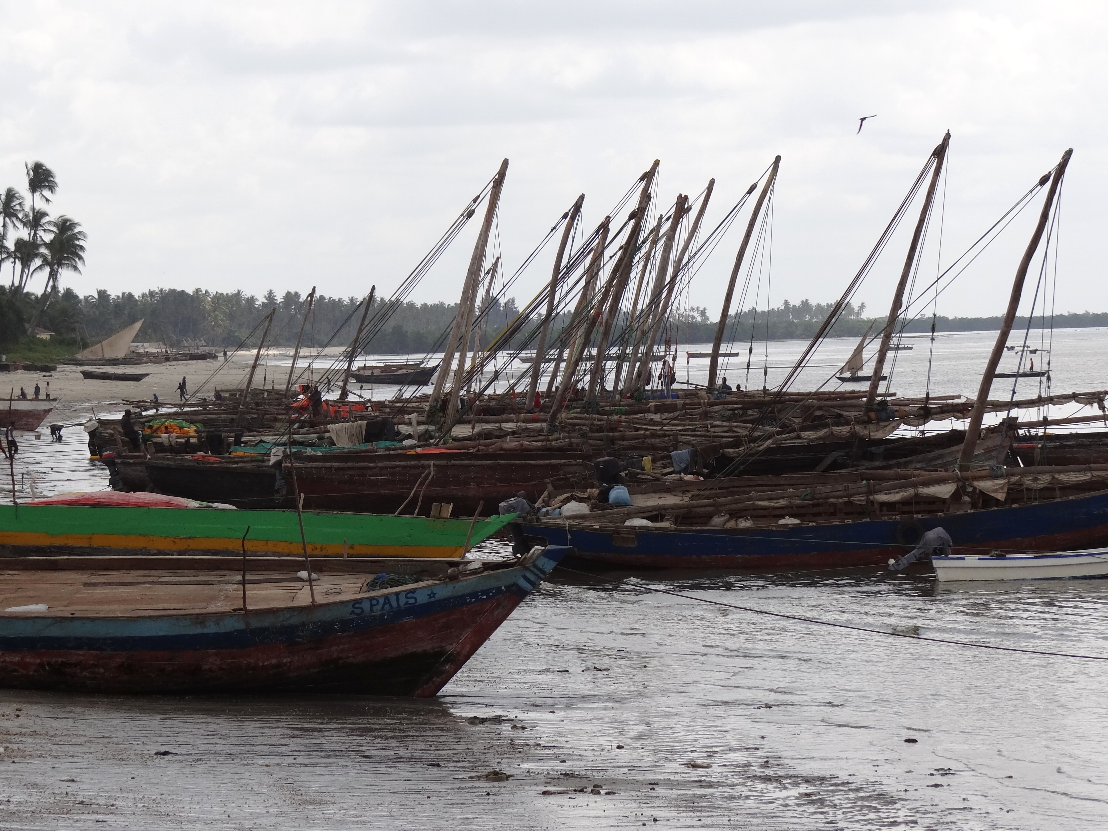 Dhows in Harbor - Fishing Port - Bagamoyo - Tanzania